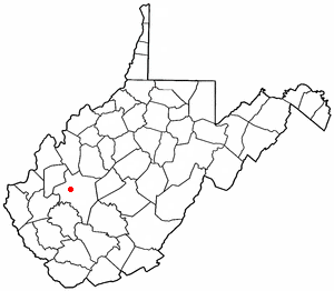 Locator map of Charleston, West Virginia.